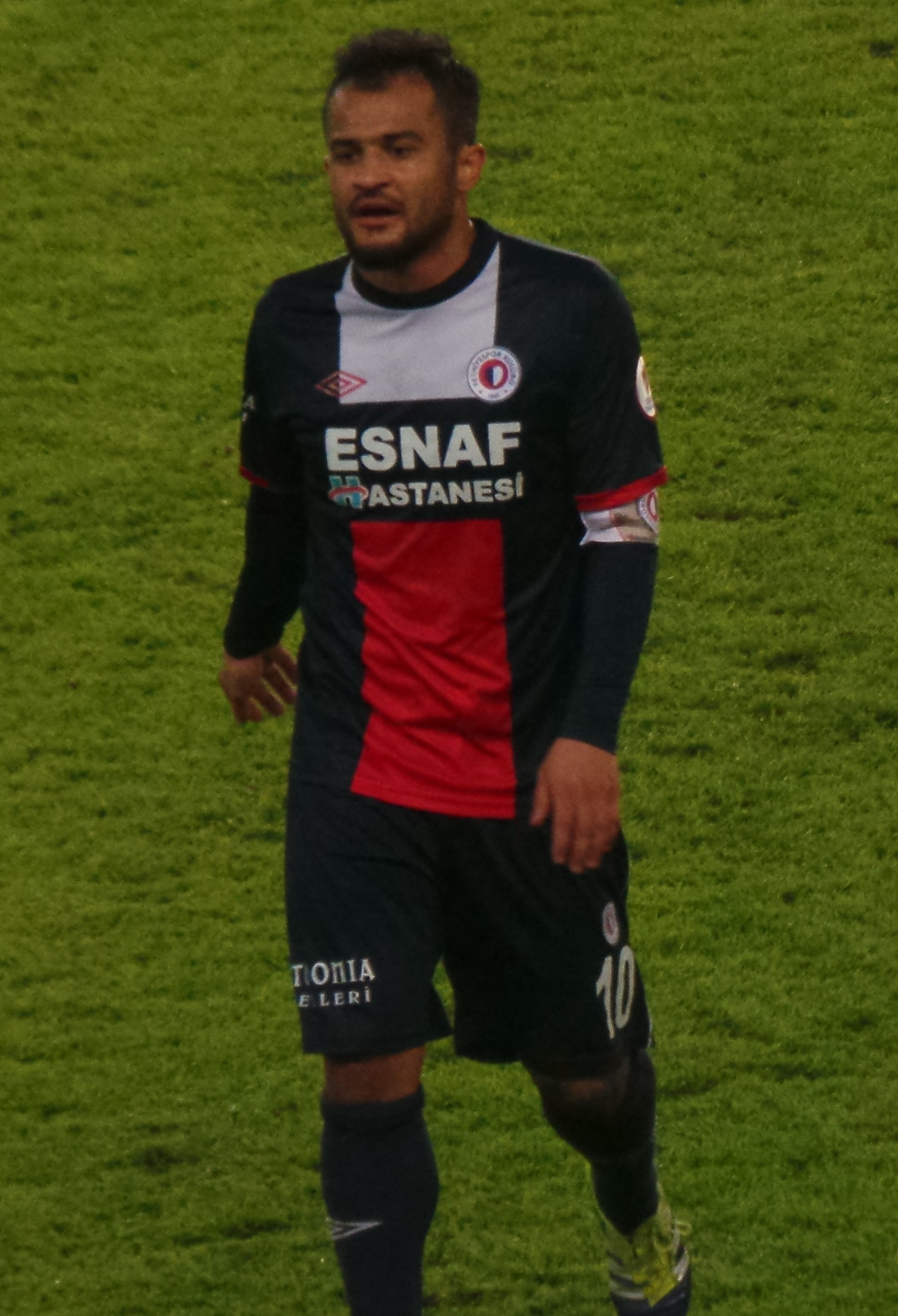 Onur Okan at F.B. match